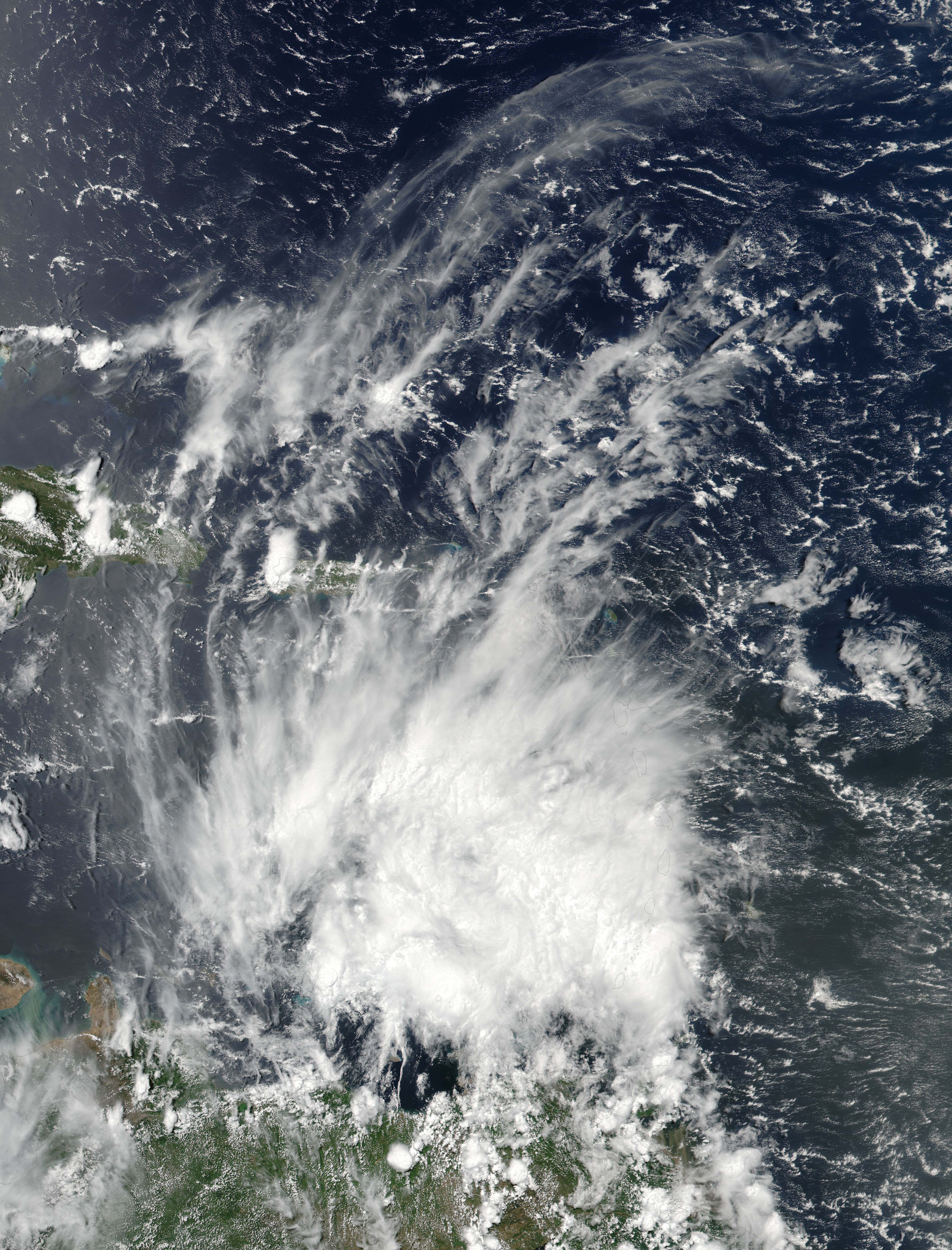 Tropical Storm Bret (02L) in the eastern Caribbean Sea